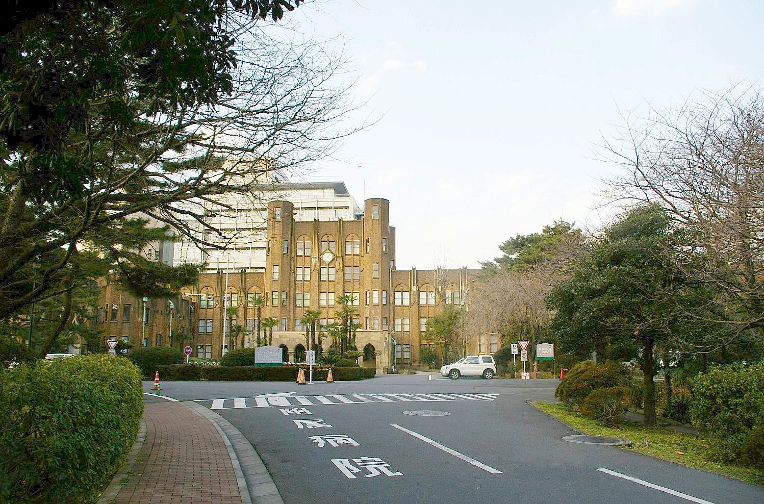 First Building of The Institute of Medical Science